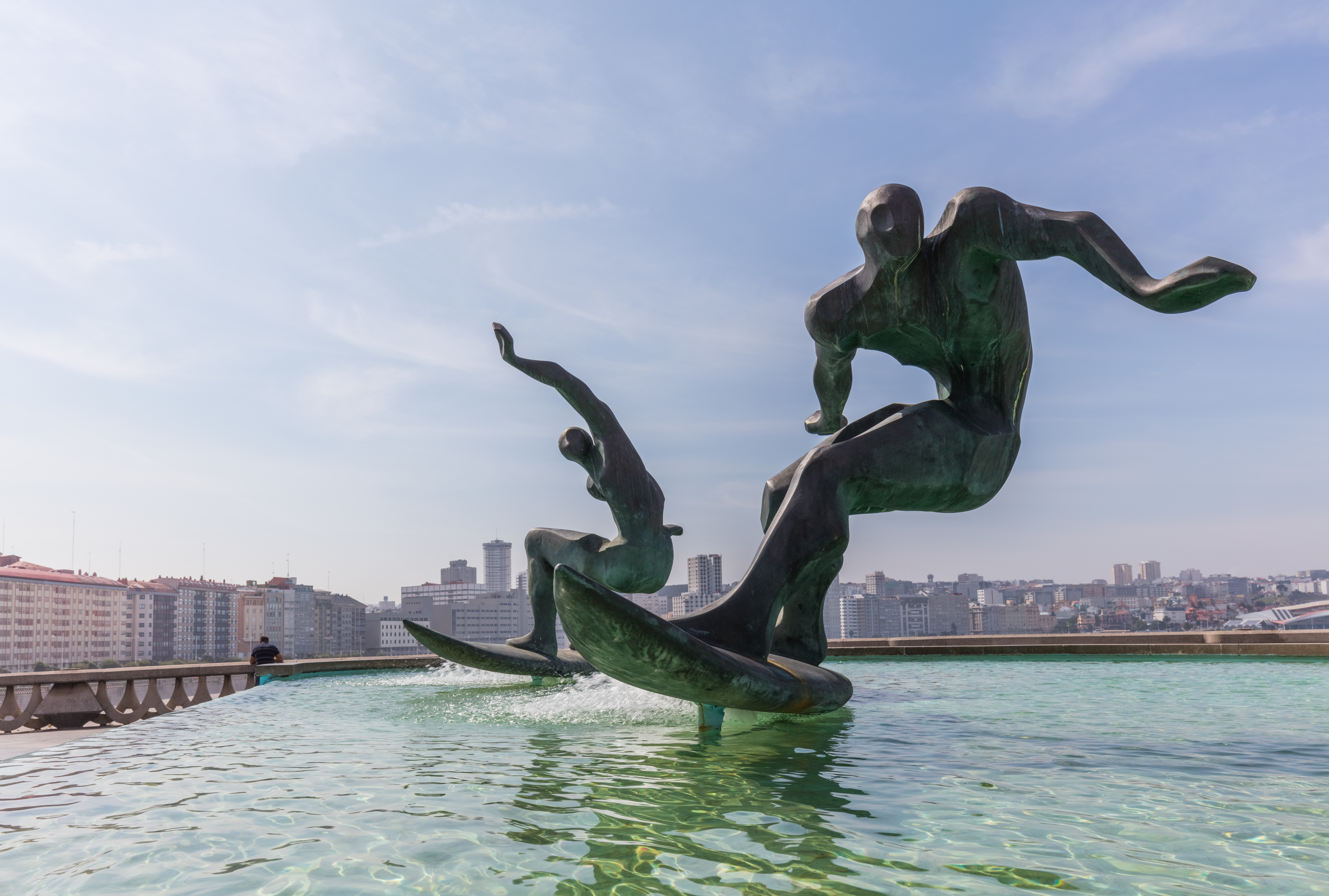 Fountain of the Surfers, La Coruña, Spain